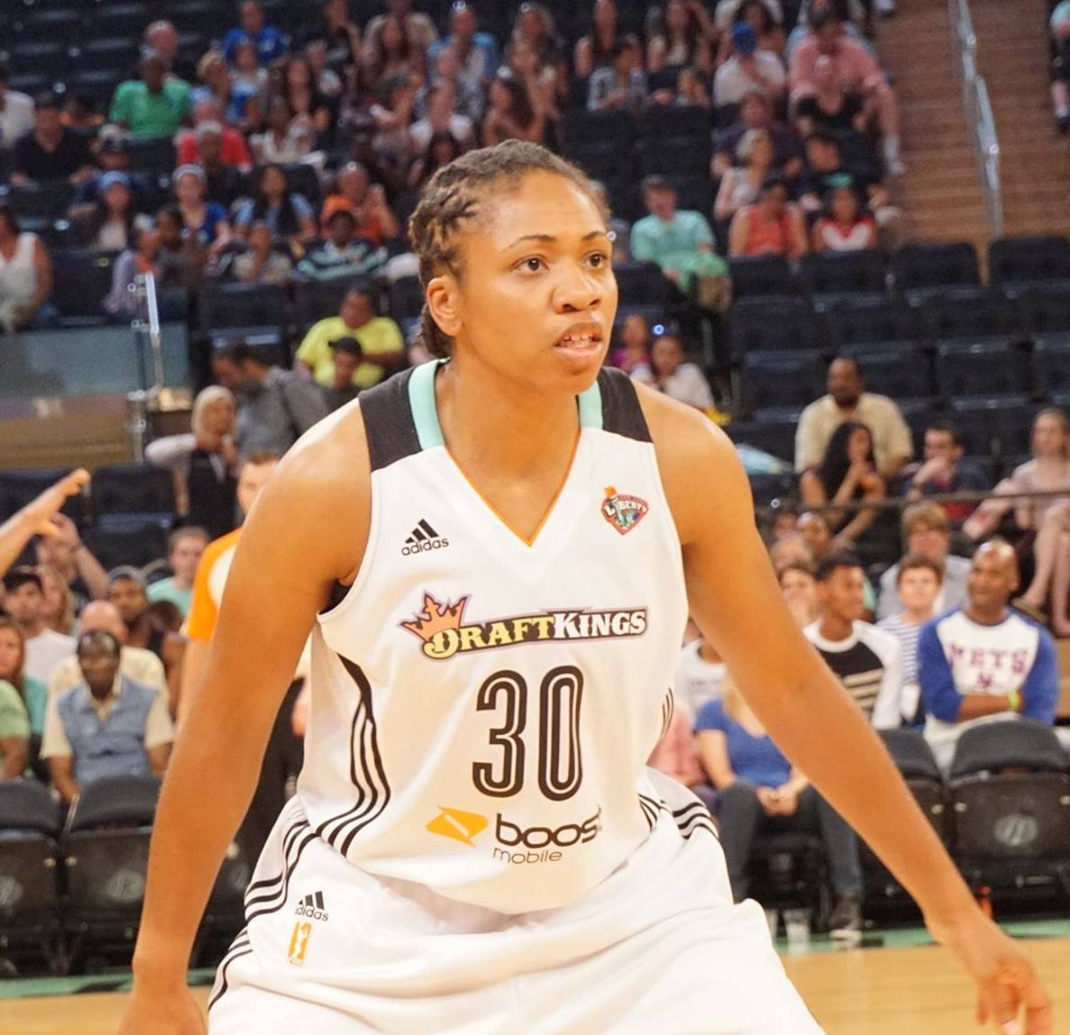 Tanisha Wright at 2 August 2015 game